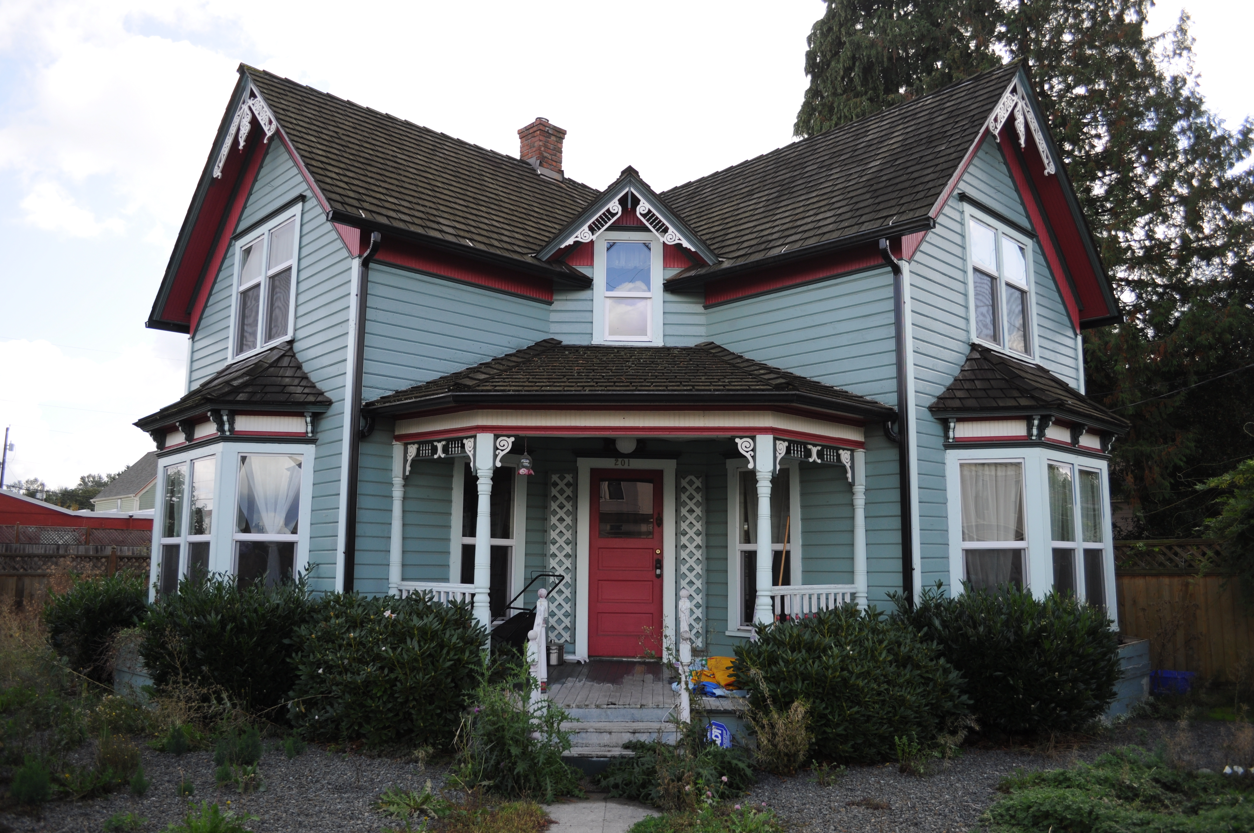 201 S. Blakeley St. (corner of W. Fremont St.), Monroe, Washington. Originally a private house, more recently used as a shop and (I believe) a restaurant.